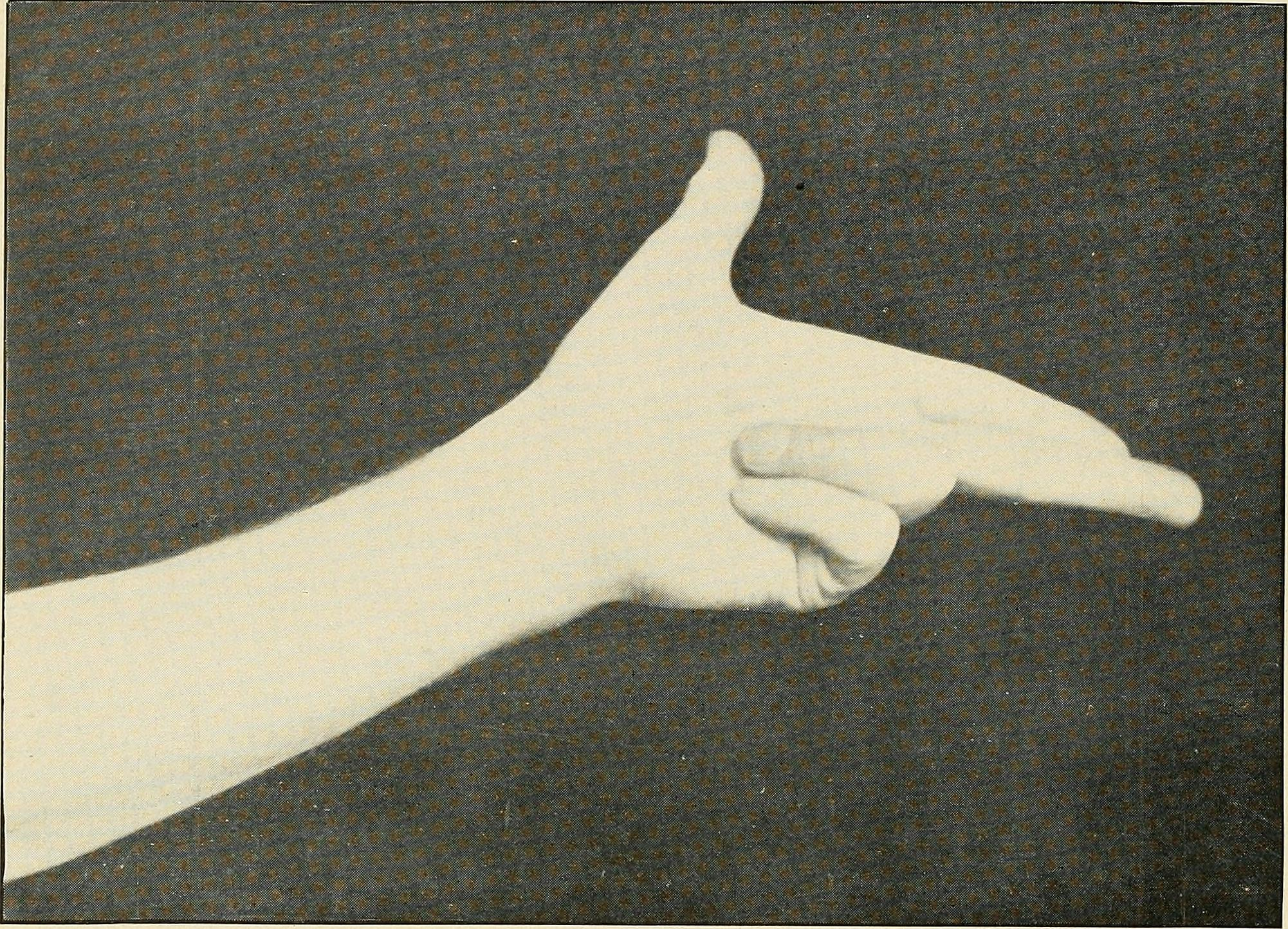 Title: The diagnosis and treatment of diseases of women Year: 1907 (1900s) Authors: Crossen, Harry Sturgeon, 1869- Subjects: Genital Diseases, Female Gynecology Gynecology Women Generative organs, Female Publisher: St. Louis : Mosby Text Appearing Before Image: ns, keeps the skin in an irritated, unhealthy condition, particu-larly in cold weather. When rubber gloves are used, all the infectious material isremoved with the gloves, which are boiled and are then ready for the next examina-tion. Fig. 52 shows the position of the fingers ordinarily preferable in the vaginal andbimanual examinations. Fig. 53 shows the hand gloved and ready for the vaginalexamination. Fig. 54 shows the disposition of the outside fingers and the thumb,as the examination is being made. The third and fourth fingers are folded into thepalm of the hand as far as possible, and care is taken to maintain extension of thethumb, so that it does not infringe upon the genitals in the region of the clitoris.-For the same reason, in the deep internal palpation the wrist should be dropped lowand the examining fingers directed upward, so as to throw the thumb away from thegenitals. In the very deep palpation in the sides of the pelvis, when the thumb is 40 THE PHYSICAL EXAMINATION Text Appearing After Image: Fig. 52. Position of tlie fingers for the vaginal and vagino-abdominal examinations.